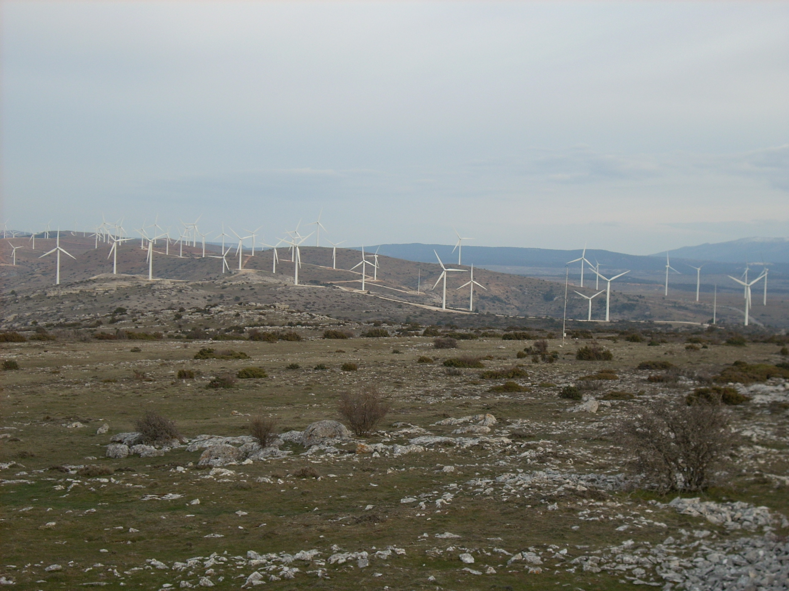 parque eolico pico del grado (Segovia)